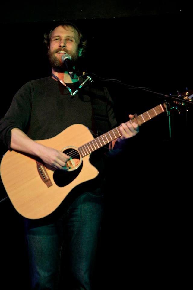 Craig Cardiff performing live at Maxwell's Music House in Waterloo, Ontario, in May 2014. Photo by Adam M. Dee of Subtle Solace Photo & Fine Arts (@SubtleSolaceArt).